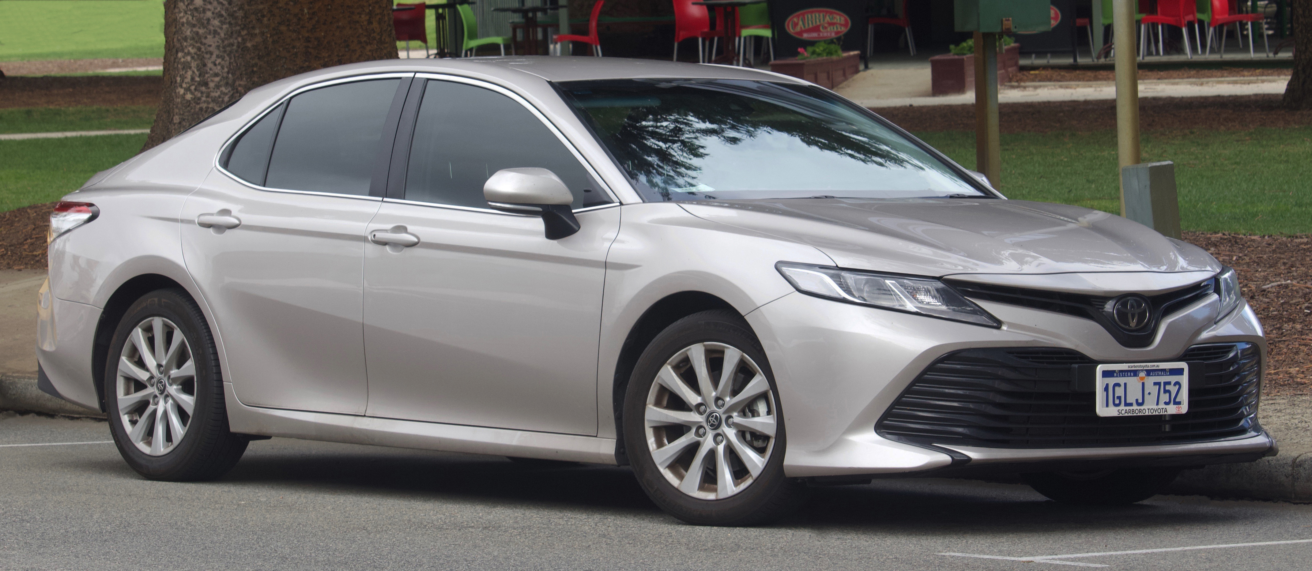 2018 Toyota Camry (ASV70R) Ascent sedan. Photographed in Fremantle, Western Australia, Australia.